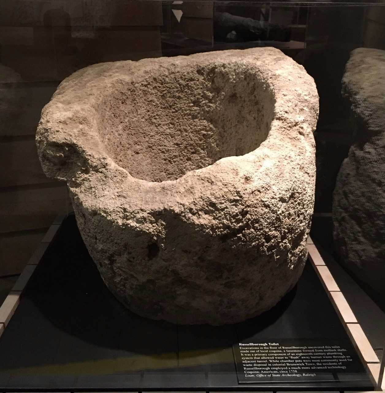 Toilet bowl found at Russellborough